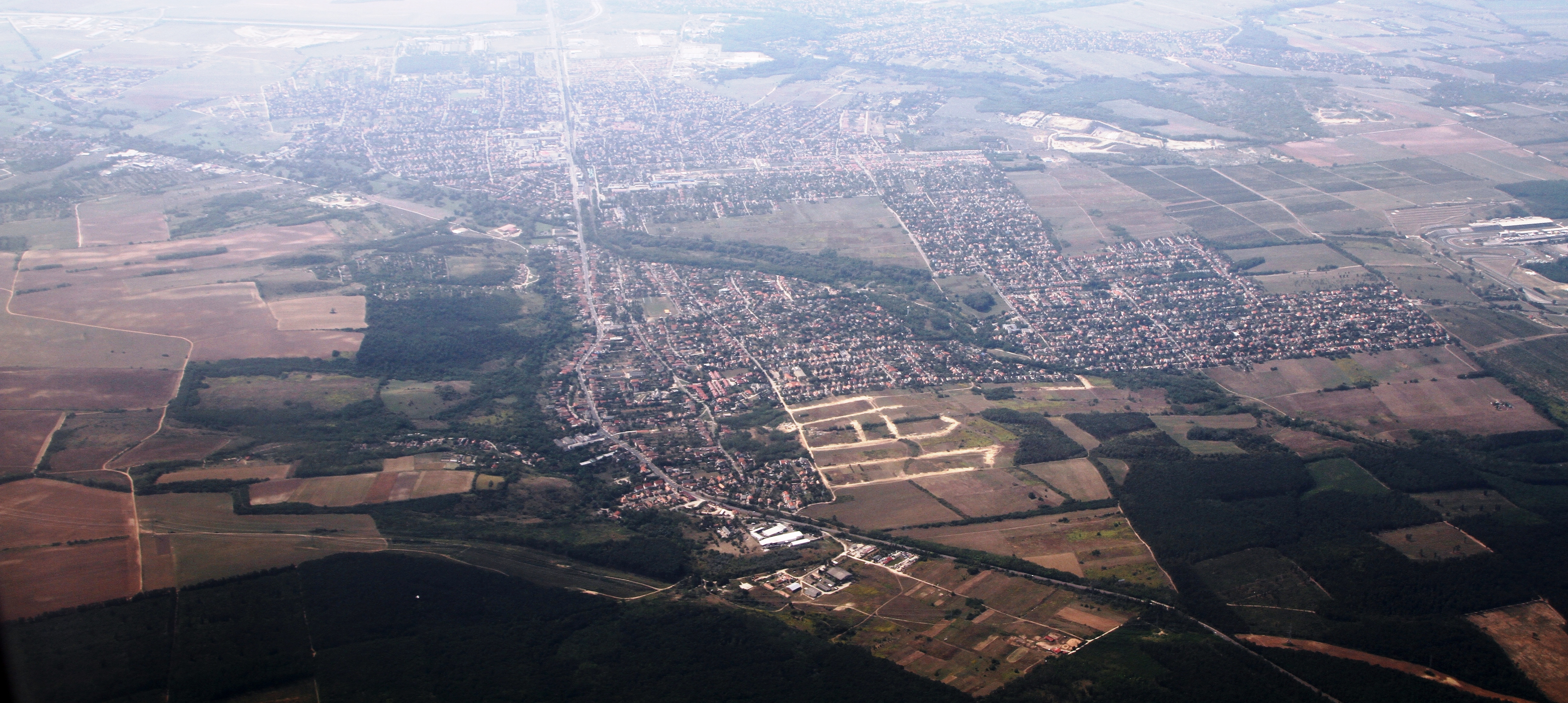 Aerial view over Kerepes in Pest county, Hungary (North of Budapest)